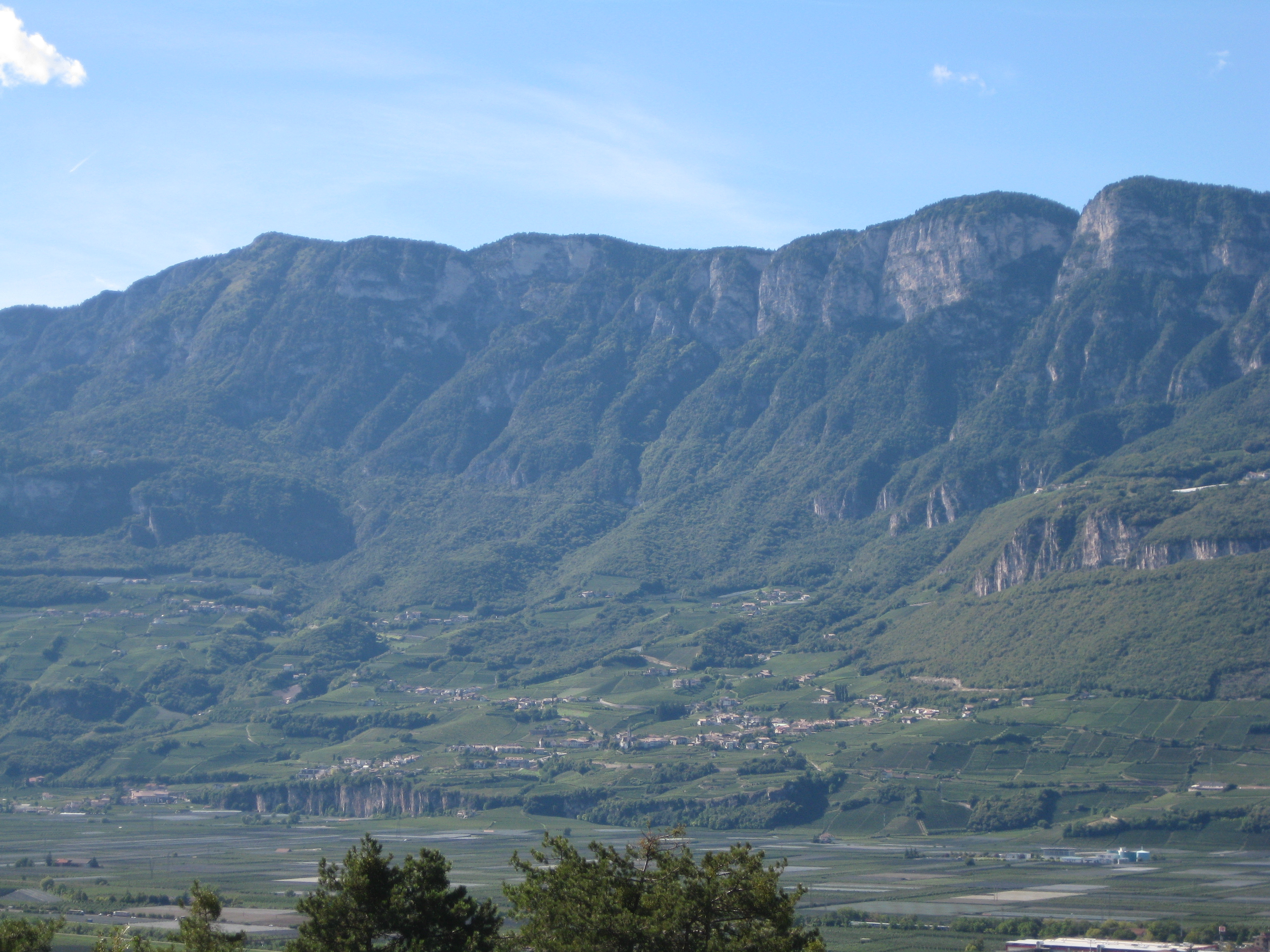 Kurtatsch in South Tyrol as seen from Pinzon